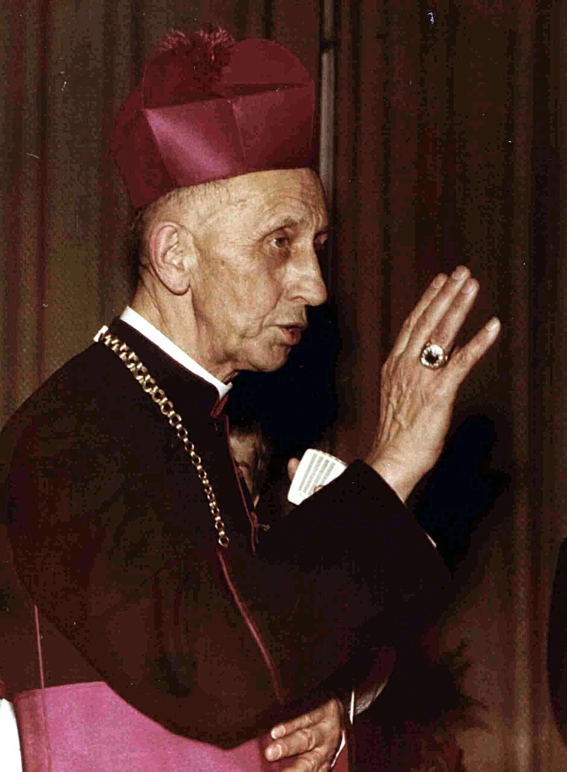 Antoni Baraniak in 1976